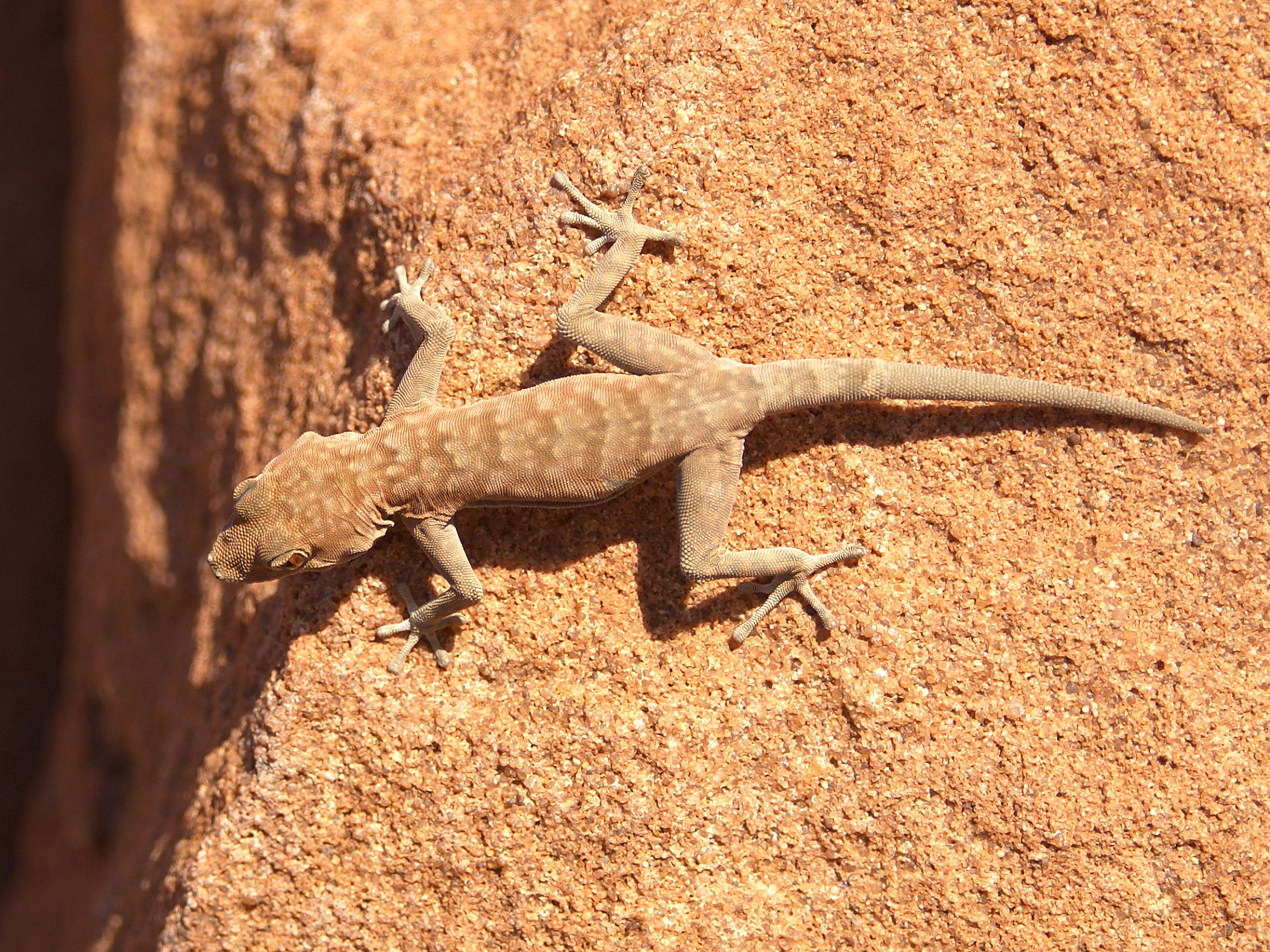 Bradfield's Namib Day Gecko at Twyfelfontein in north western Namibia Branch, B. & W. P. Koella, (1988). A Field Guide to the Snakes and Other Reptiles of Southern Africa, mentions two subspecies. R. b. bradfieldi is stated as only occurring south of Brandberg, while R. b. diporus occurs north of that mountain. This specimen was photographed at Twyfelfontein, about 60 km North of Brandberg. R. bradfieldi is endemic to Namibia and the two subspecies occur in only a small area in two virtually disjunct zones.